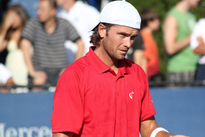 Kendrick during qualies